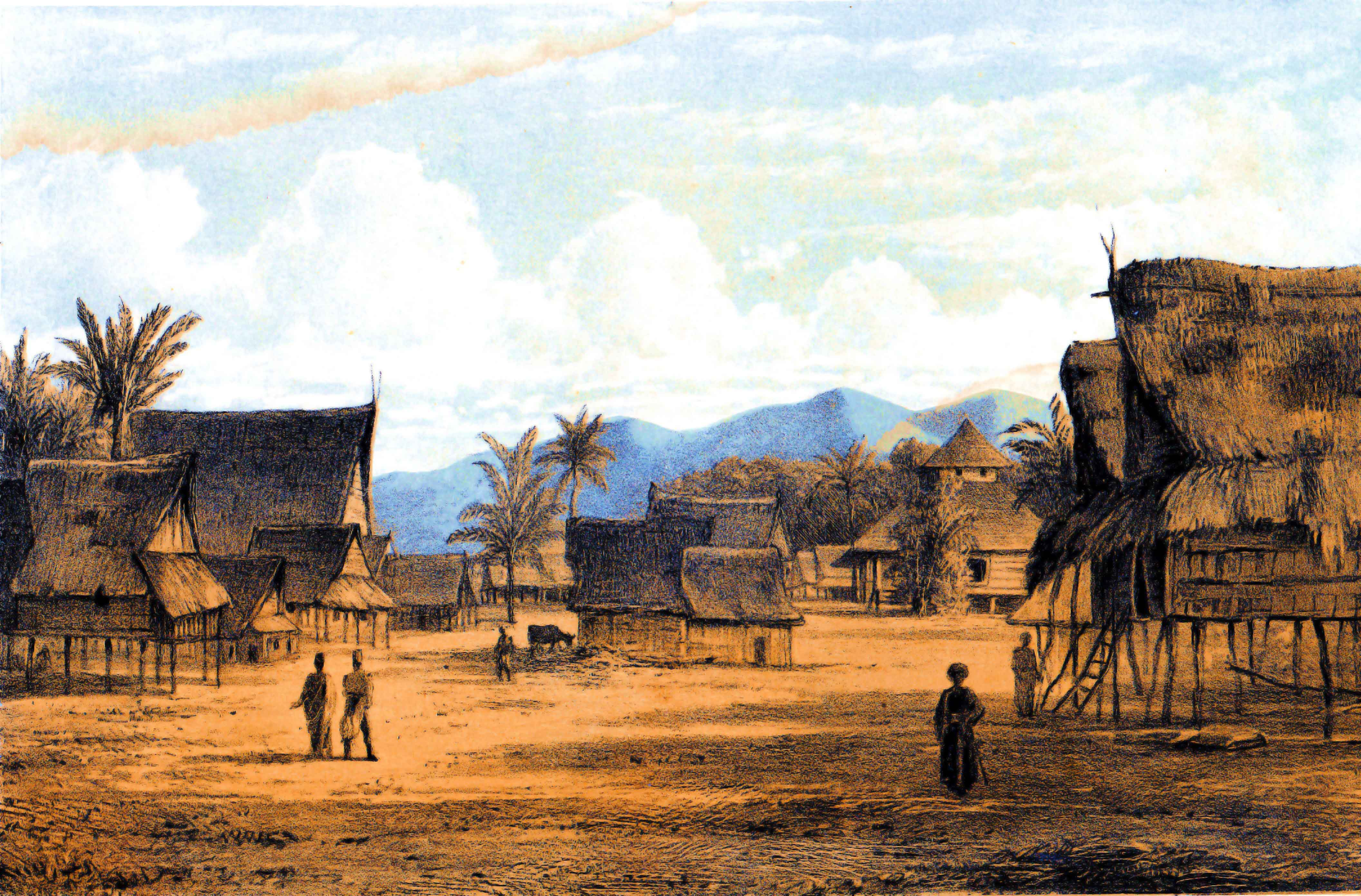 Kota Siantar, Mandheling